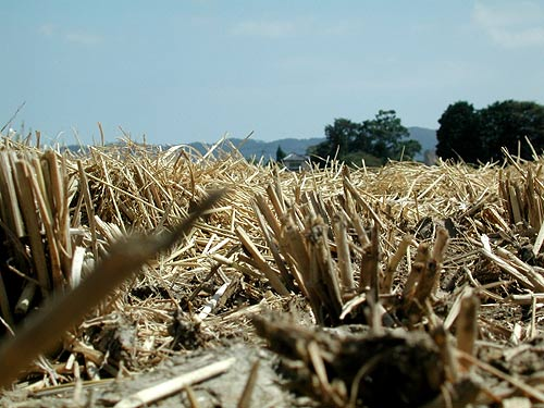 rice field: rice field after rice reaping